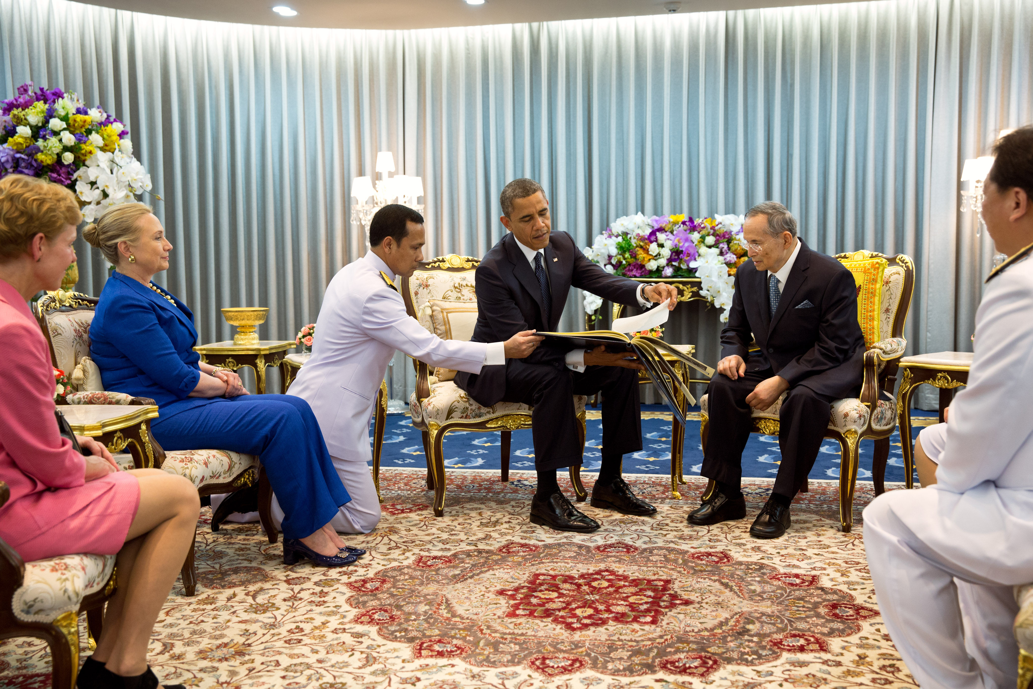 United States President Barack Obama presents a gift to King Bhumibol Adulyadej of Thailand during their meeting at Siriraj Hospital in Bangkok on 18 November 2012. The President presented an album containing photographs of the King with U.S. presidents and first ladies dating back to President Eisenhower. U.S. Ambassador to Thailand, Kristie Kenney, and Secretary of State, Hillary Clinton, are seated at left.